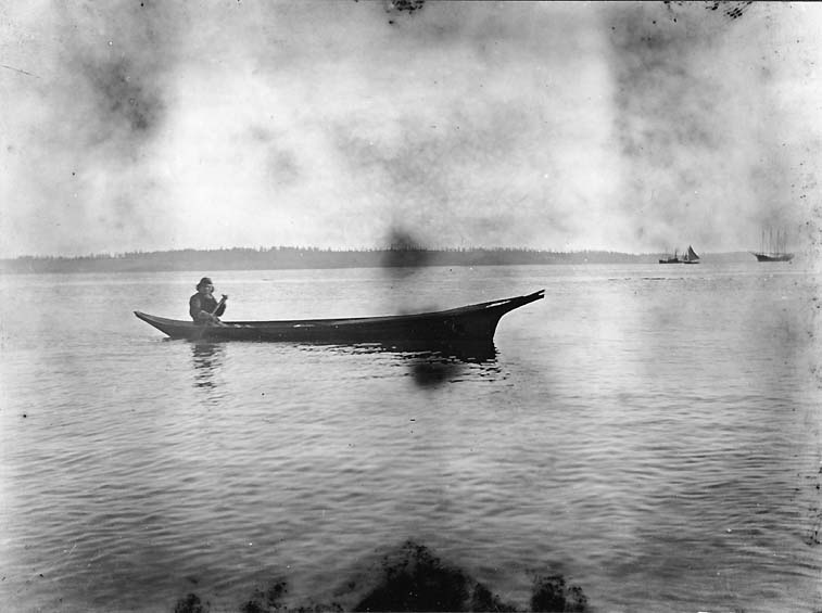 Coast Salish canoe in Port Townsend Bay, ca. 1900 by McCurdy, James G. American Memory from the Library of Congress